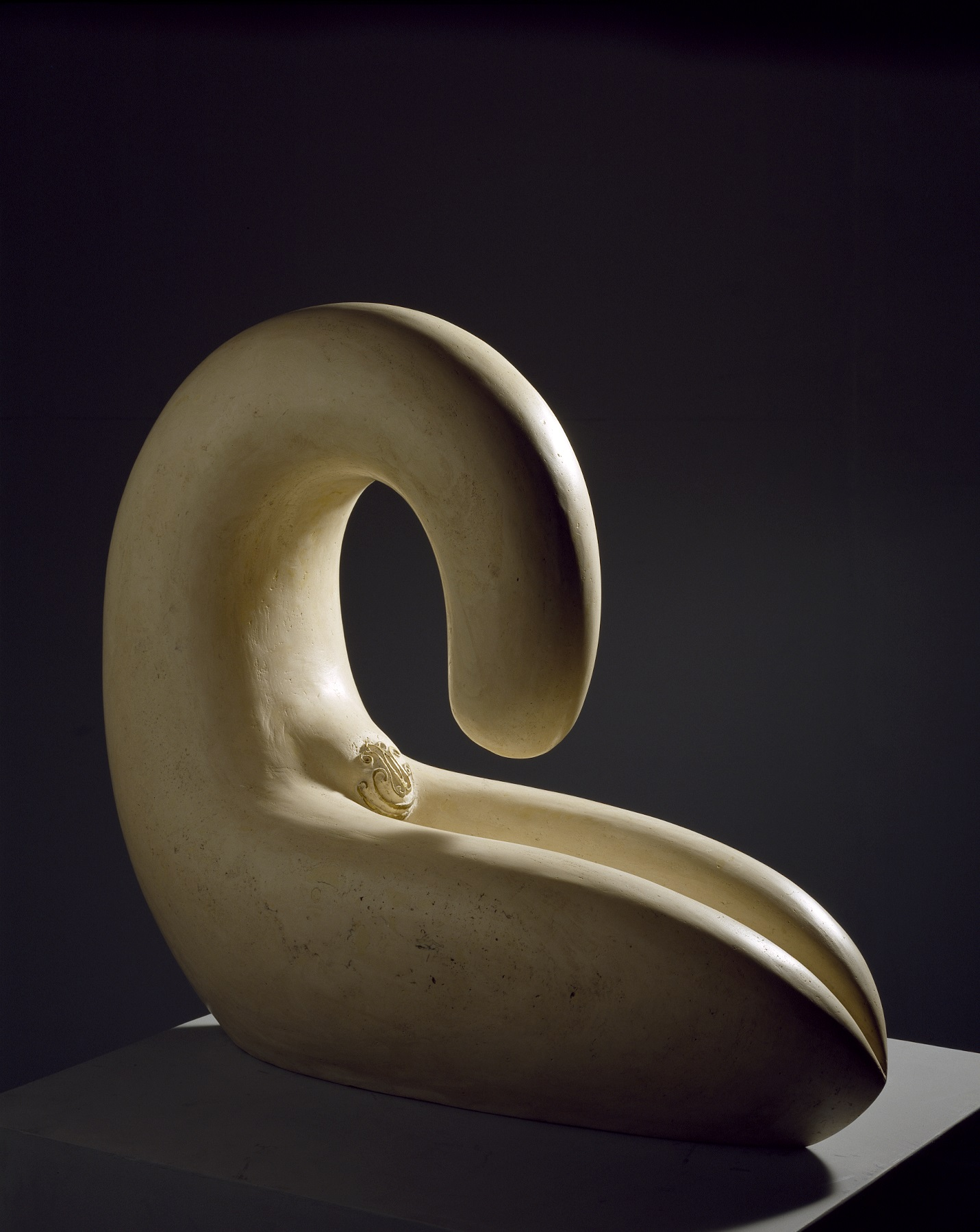 Bruno Ceccobelli's Artwork "Leda", 2000, travertine